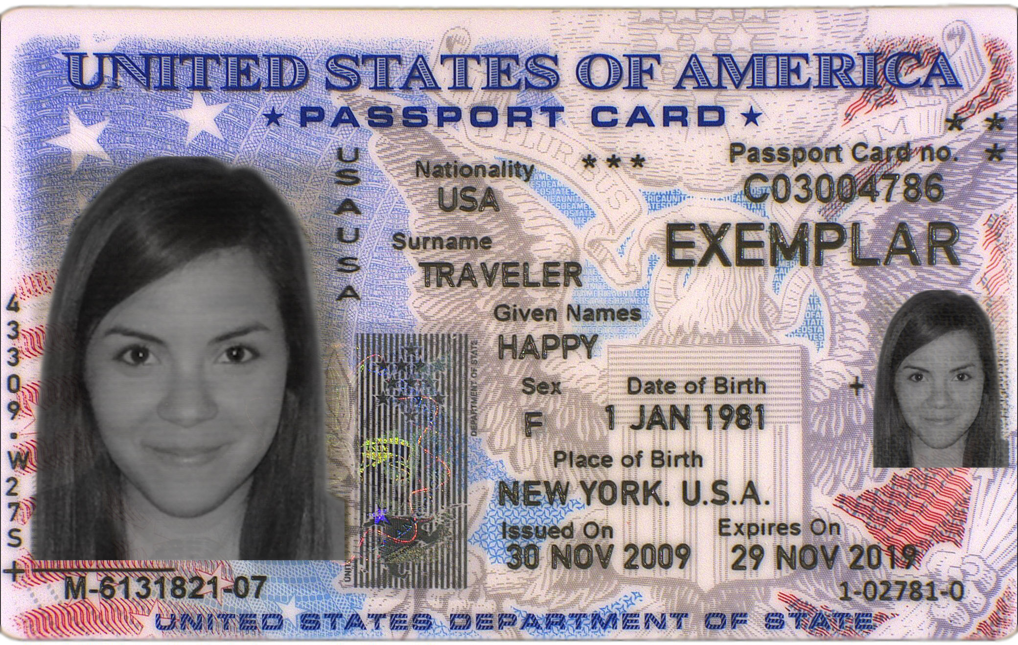 PASS card, Department of Homeland Security Image: US Department of State Website